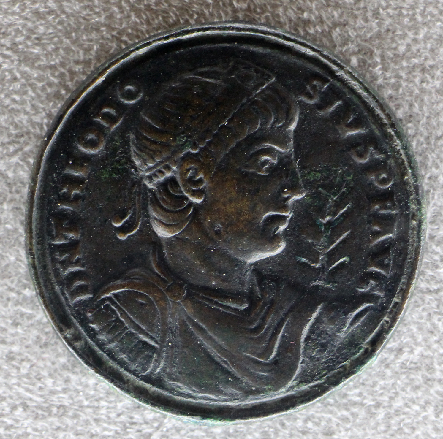 Ancient Roman medals in the Museo archeologico nazionale (Florence)